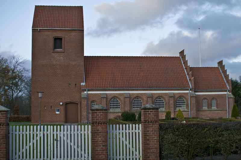 Dorf Kirke, church in the northern part of Denmark, Vendsyssel